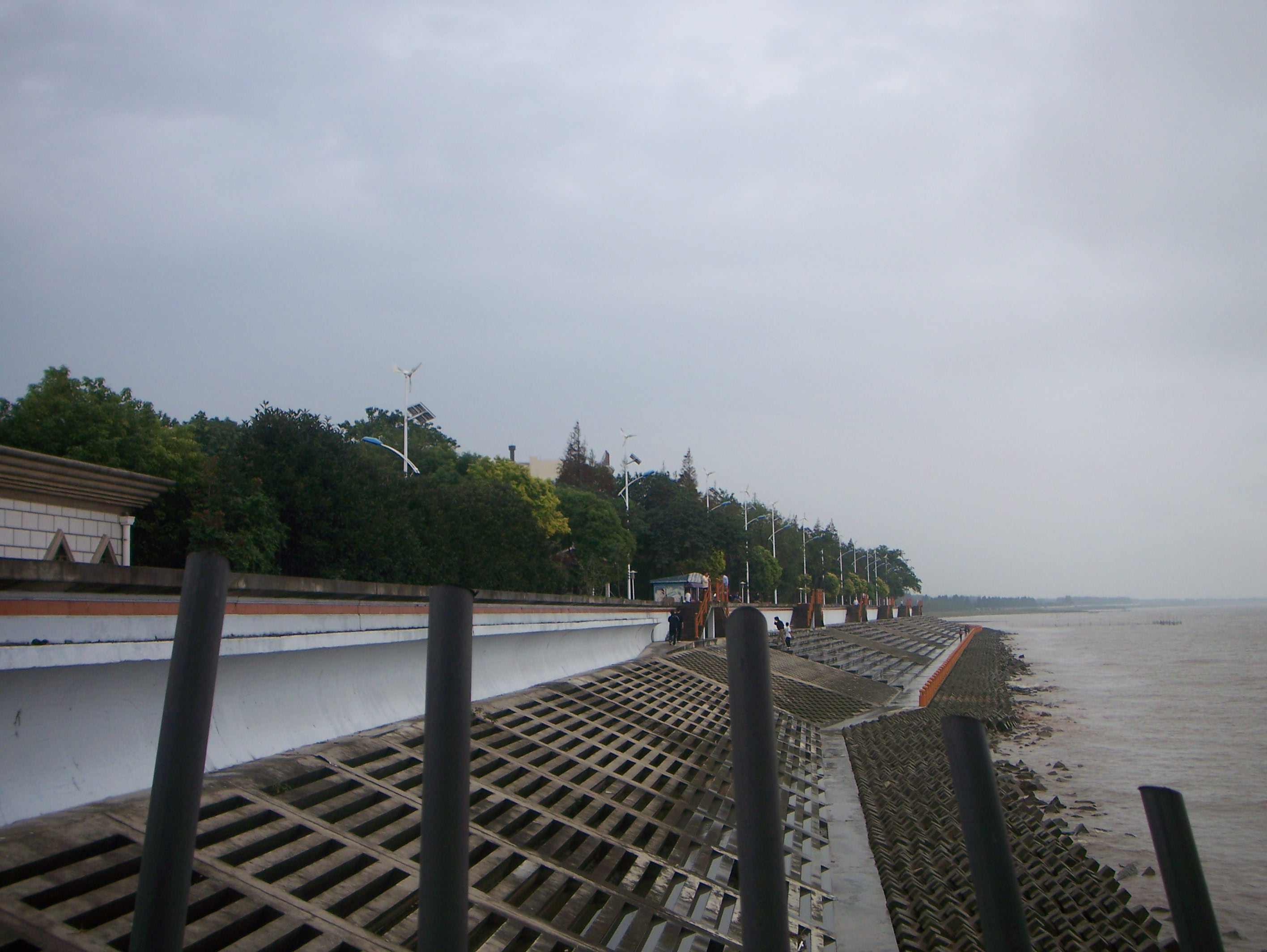 Little wind turbines (coupled with little solar panel) in Chongming Island, Shanghai, China